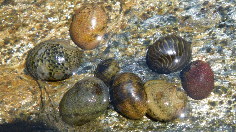 Clithon faba Sowerby,1836. at Nagasaki.